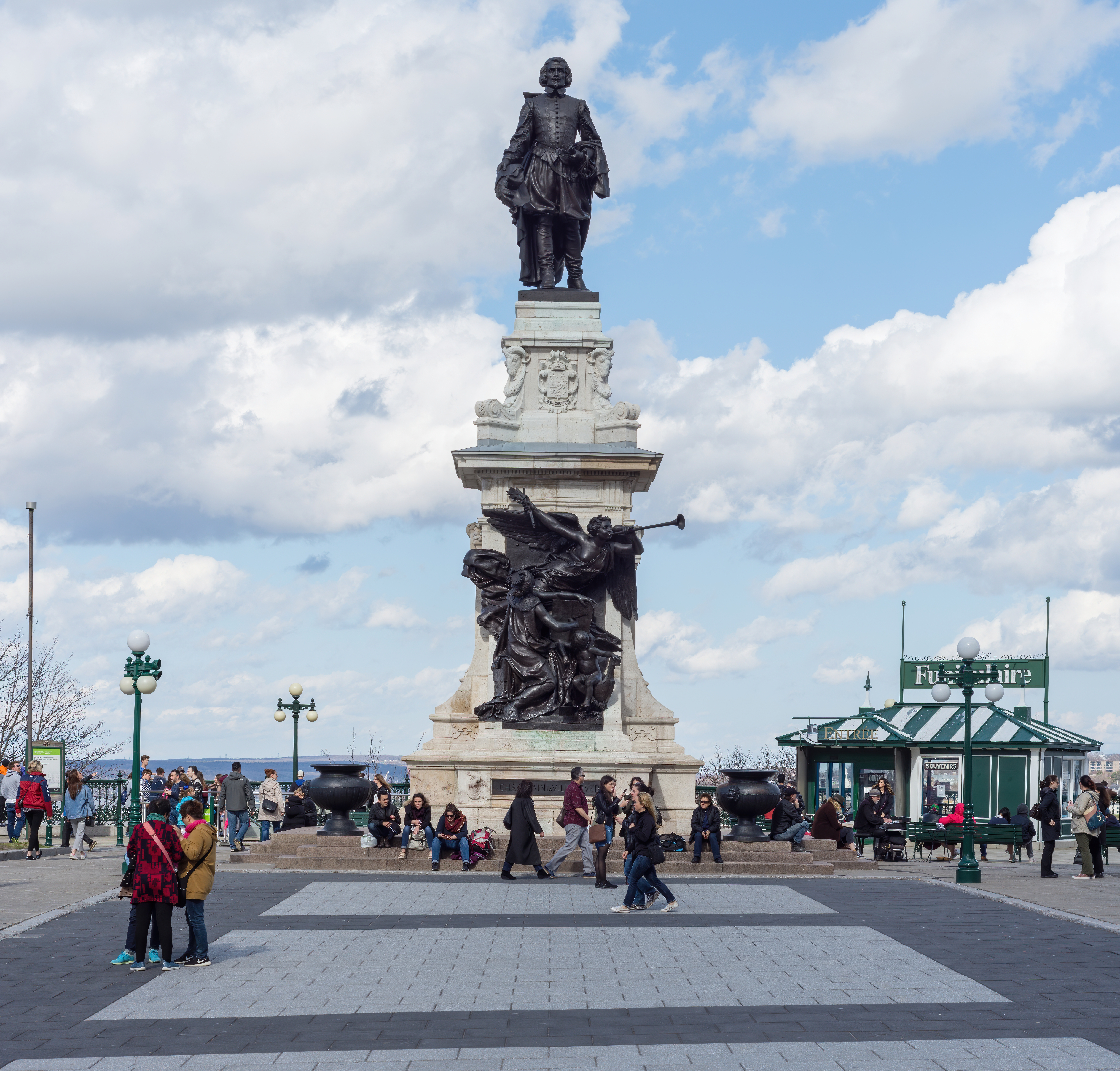 Samuel de Champlain statue, Quebec City